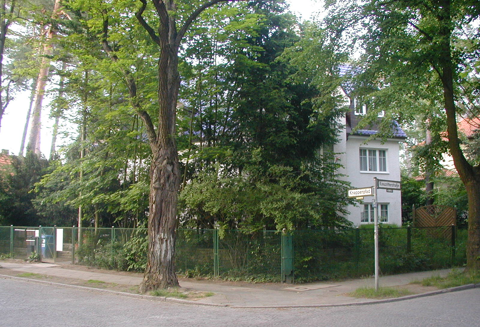 A retirement home in Berlin on 30 May 2004. Photo taken and uploaded by Roger McLassus.